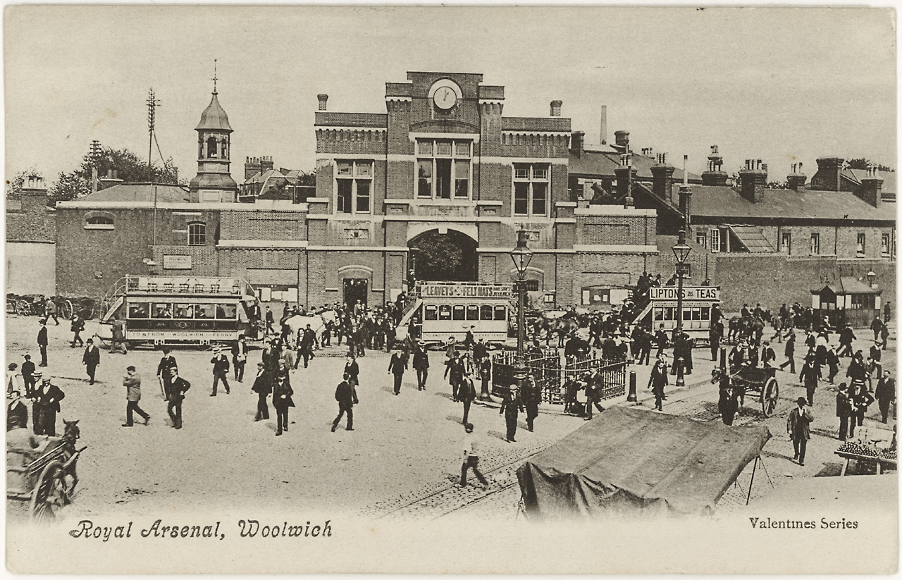 Royal Arsenal, Woolwich, London. Reproduction ID: H0684 Maker: Unknown